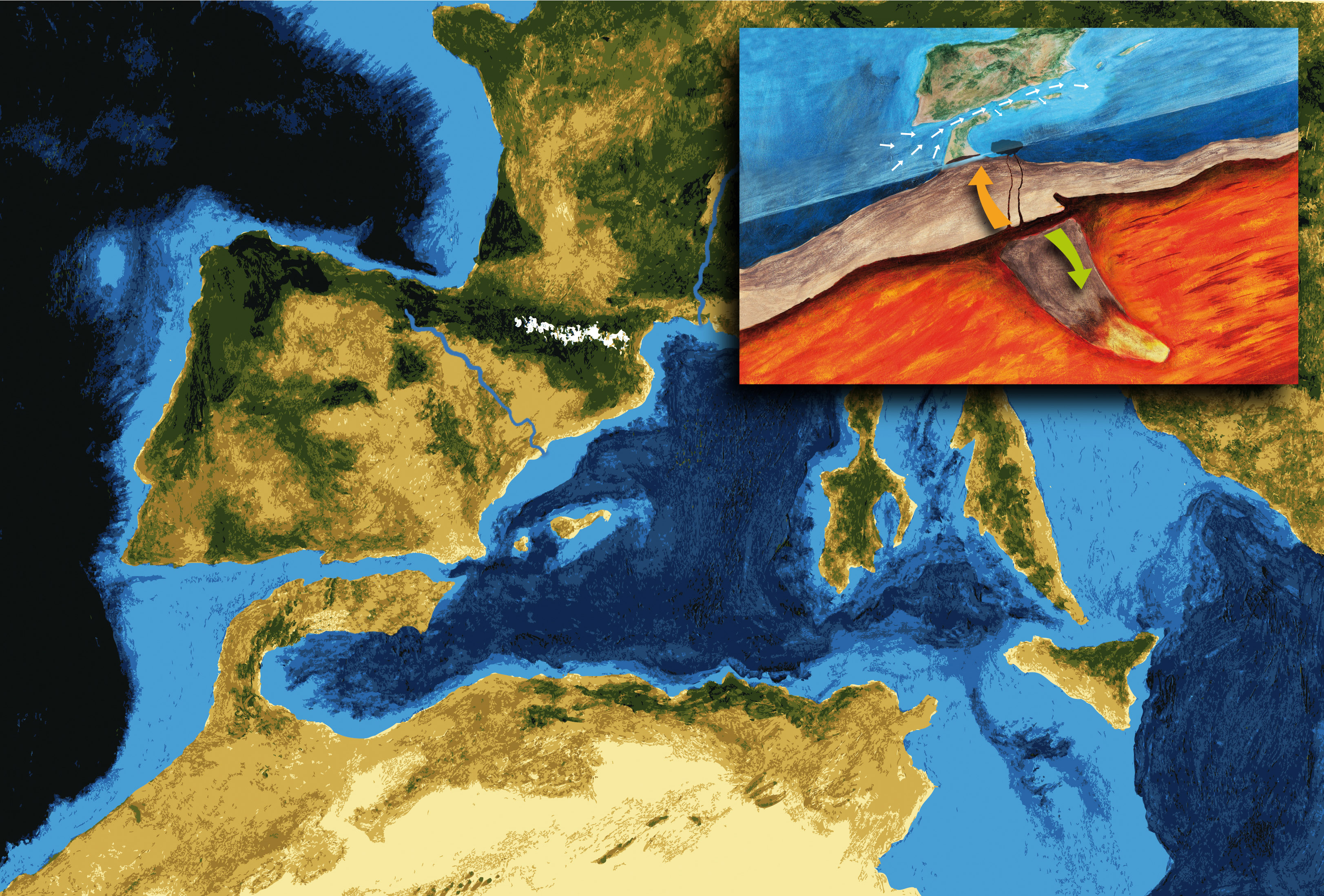 Last canal connecting the Atlantic and Mediterranean which survived the uprising of the Gibraltar Arc 6 million years ago. The canal enabled the entry of Atlantic waters to offset the Mediterranean water deficit, which receives less river water that evaporates from its surface. At the same time, the flow of incoming water erosion produced enough to keep the channel despite the continued rise of the Betic Cordillera. The closure of the other connecting channels caused hypersaline Mediterranean water and the beginning of the Messinian salinity crisis. The inset box shows the rise of the Gibraltar Arc area between the Betic and Rif. Also shown as a part of the crust is subsumed in the Earth's mantle and a portion of molten magma rises through cracks in the crust. Artistic interpretation by Pau Bahí under the scientific supervision of Daniel Garcia Castellanos, geophysicist at the Institute of Earth Sciences Jaume Almera (CSIC)